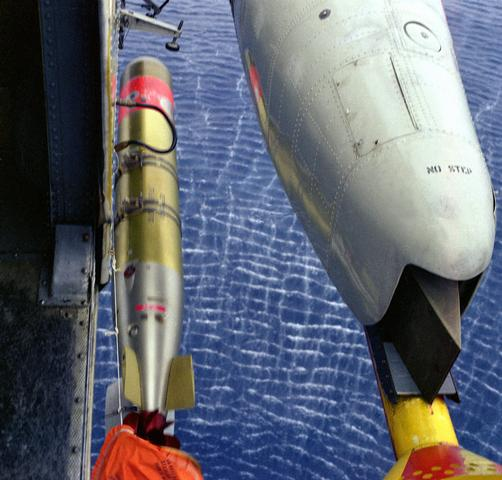 A Mk 46 tropedo is released from the starboard side of an U.S. Navy Sikorsky SH-3H Sea King helicopter from from Helicopter Anti-submarine Squadron 6 (HS-6) Indians on 29 June 1983. An AN/ASQ-81 (V)-2 magnetic anomaly detector (MAD) system magnetic detecting towed body is stowed in the starboard sponson (right foreground).